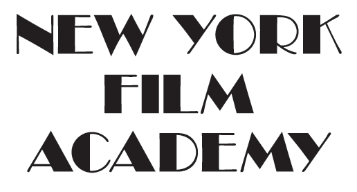 Logo for the New York Film Academy